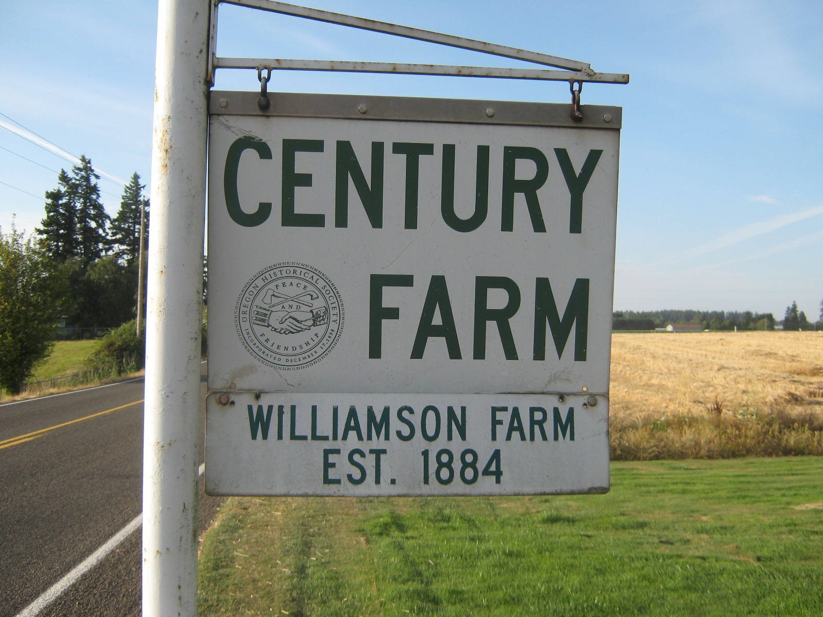 Century Farm Sign northeast of Salem, Oregon in the Lake Labish area (I believe it is on 62nd Avenue). Text reads "Century Farm" "Williamson Farm est. 1884". Included on the sign is the seal of the Oregon Historical Society, which reads in part "Peace and Friendship". According to the Oregon Department of Agriculture, as of 1993, the farm raised horses, sheep, and cows. Circa 1940 they raised flax for linen, and circa 1950 they grew strawberries, kale seed and potatoes.